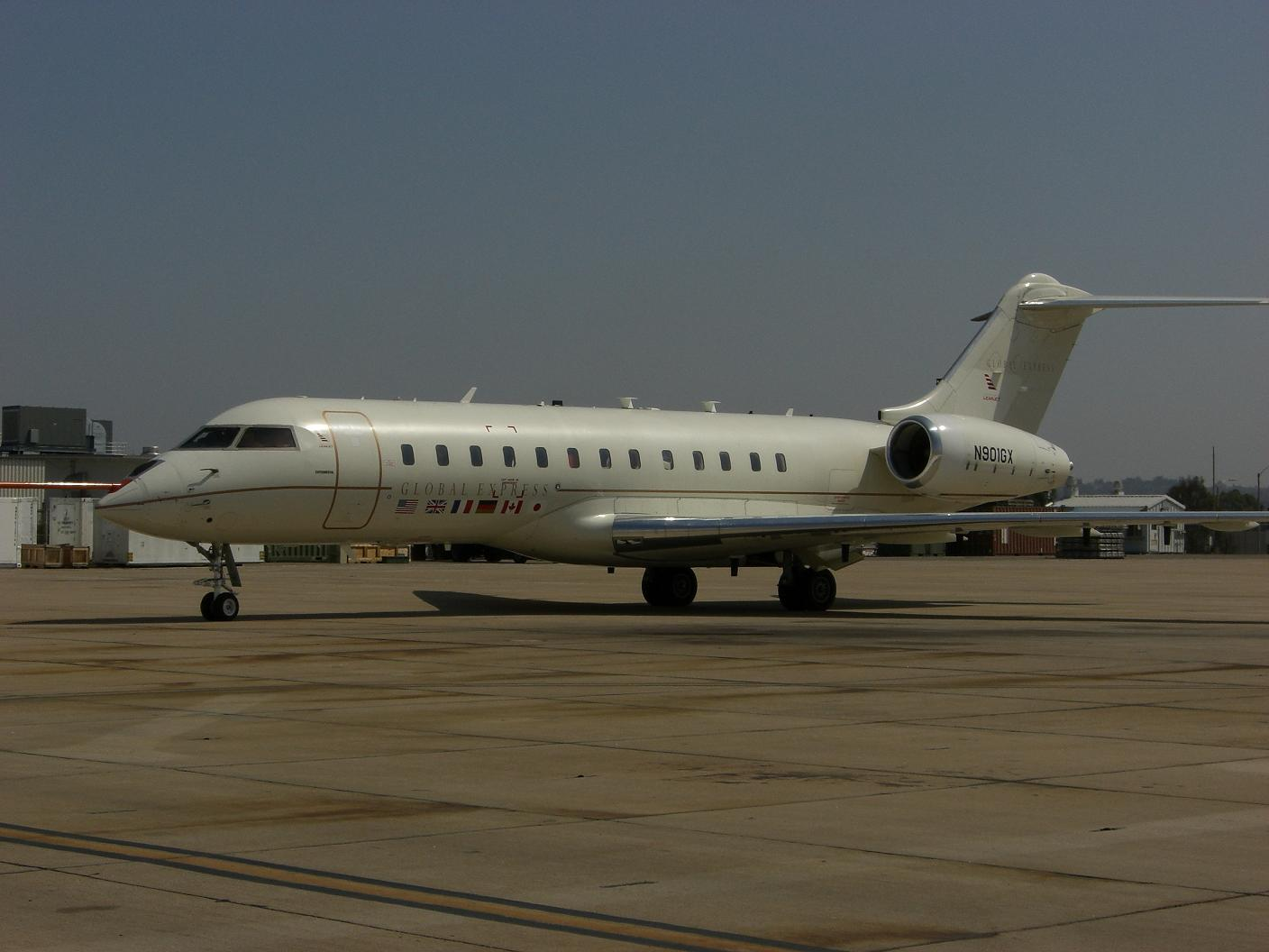 Bombardier Global Express Aircraft Configured as a Battlefield Airborne Communications Node Aircraft